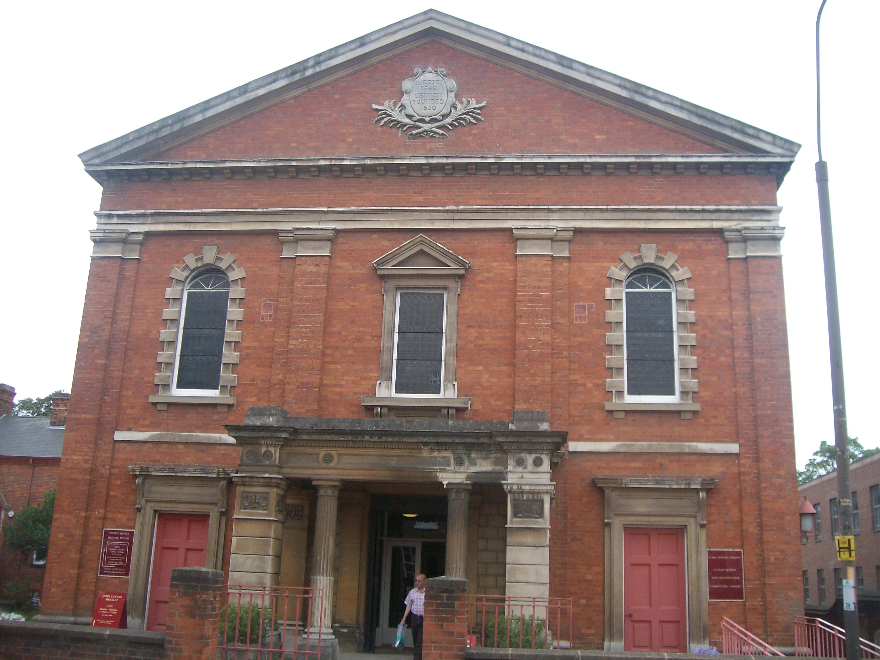 Bunyan Meeting Free Church, which is named after John Bunyun, and which adjacent to and maintains the John Bunyan Museum